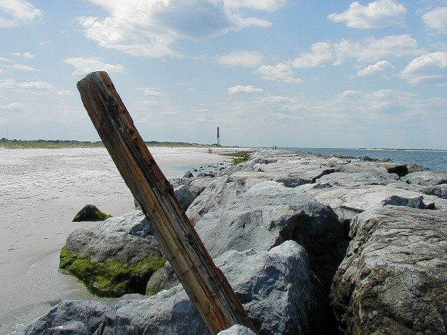 Barnegat Lighthouse in Barnegat Light, Long Beach Island, New Jersey